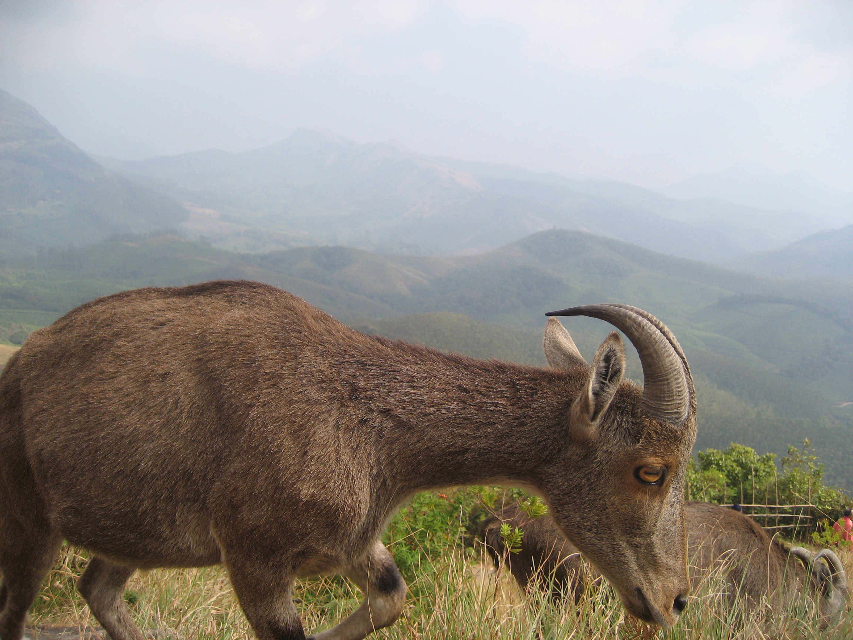 Eravikulam National Park, India Picture of Nilgiri Tahr goat.